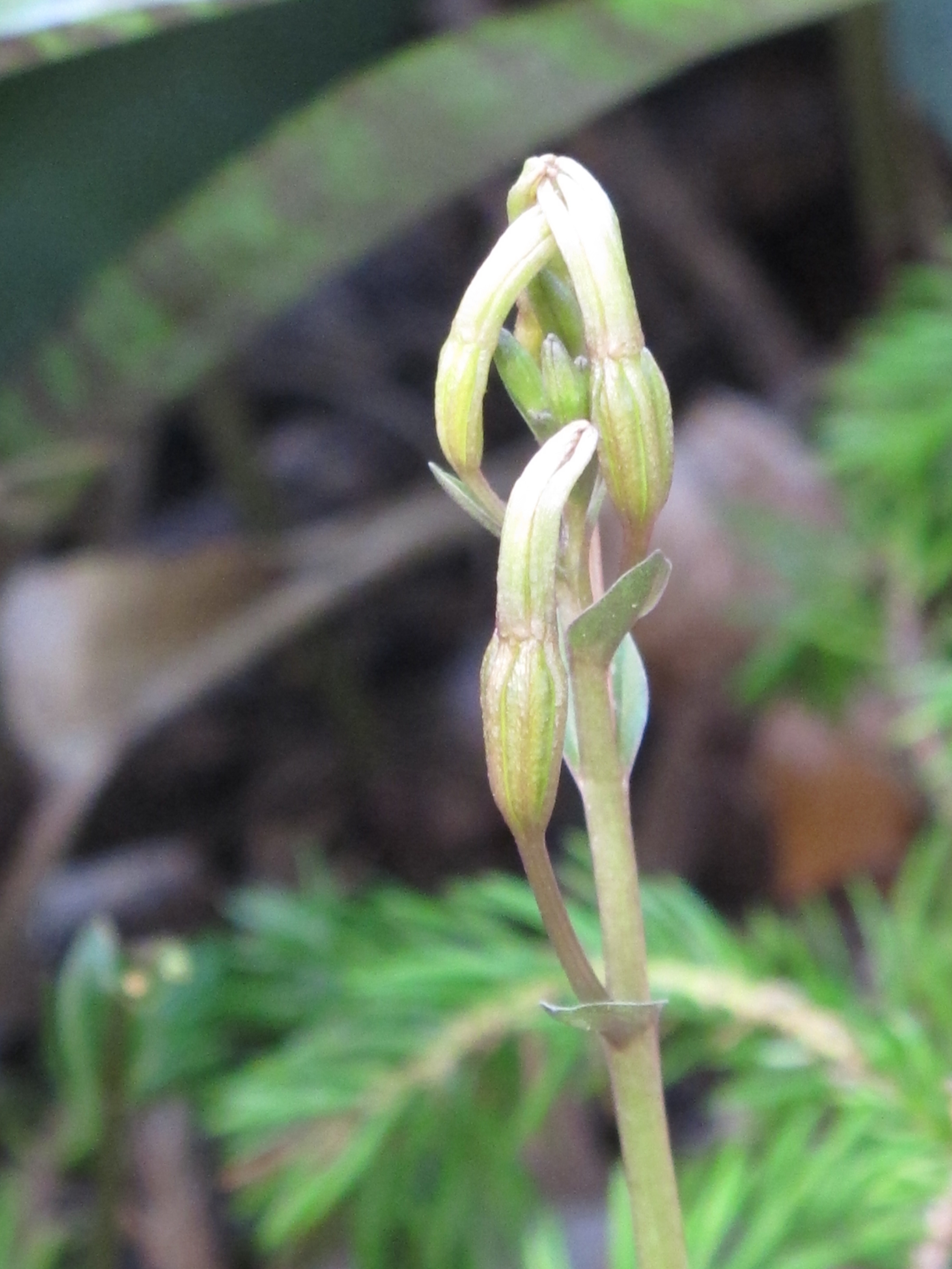 Triphora gentianoides; coming up in our garden. This was a good year for this orchid. We must have about 100 plants. Too bad they are so homely. South Miami, Florida, USA.